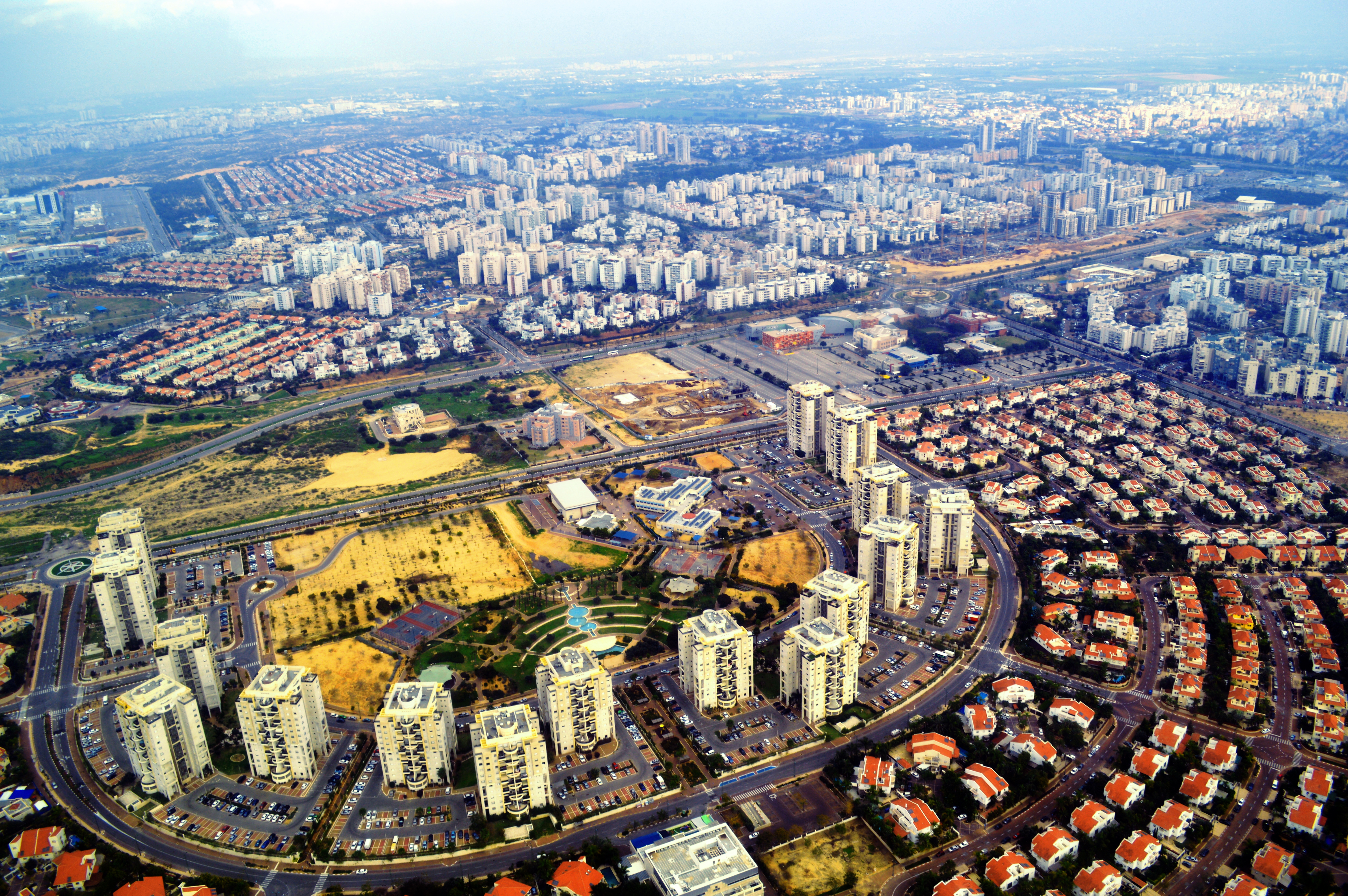 Rishon LeZion West Aerial View